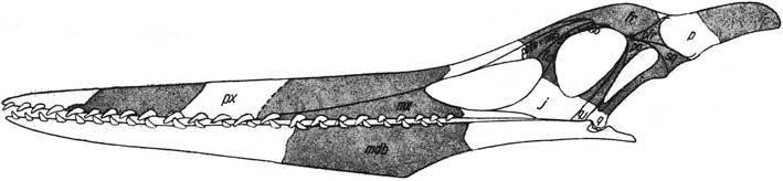 Reconstructed skull of Ornithocheirus compressirostris (now Lonchodectes).